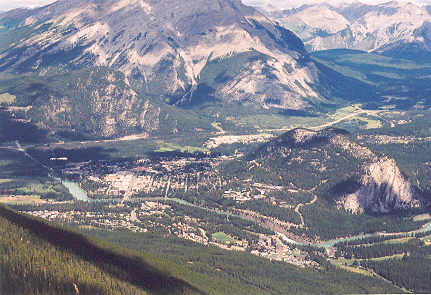 Banff, Alberta, Canada from Sulphur Mountain. Townsite is on the left, Tunnel Mountain (foreground) on the right.